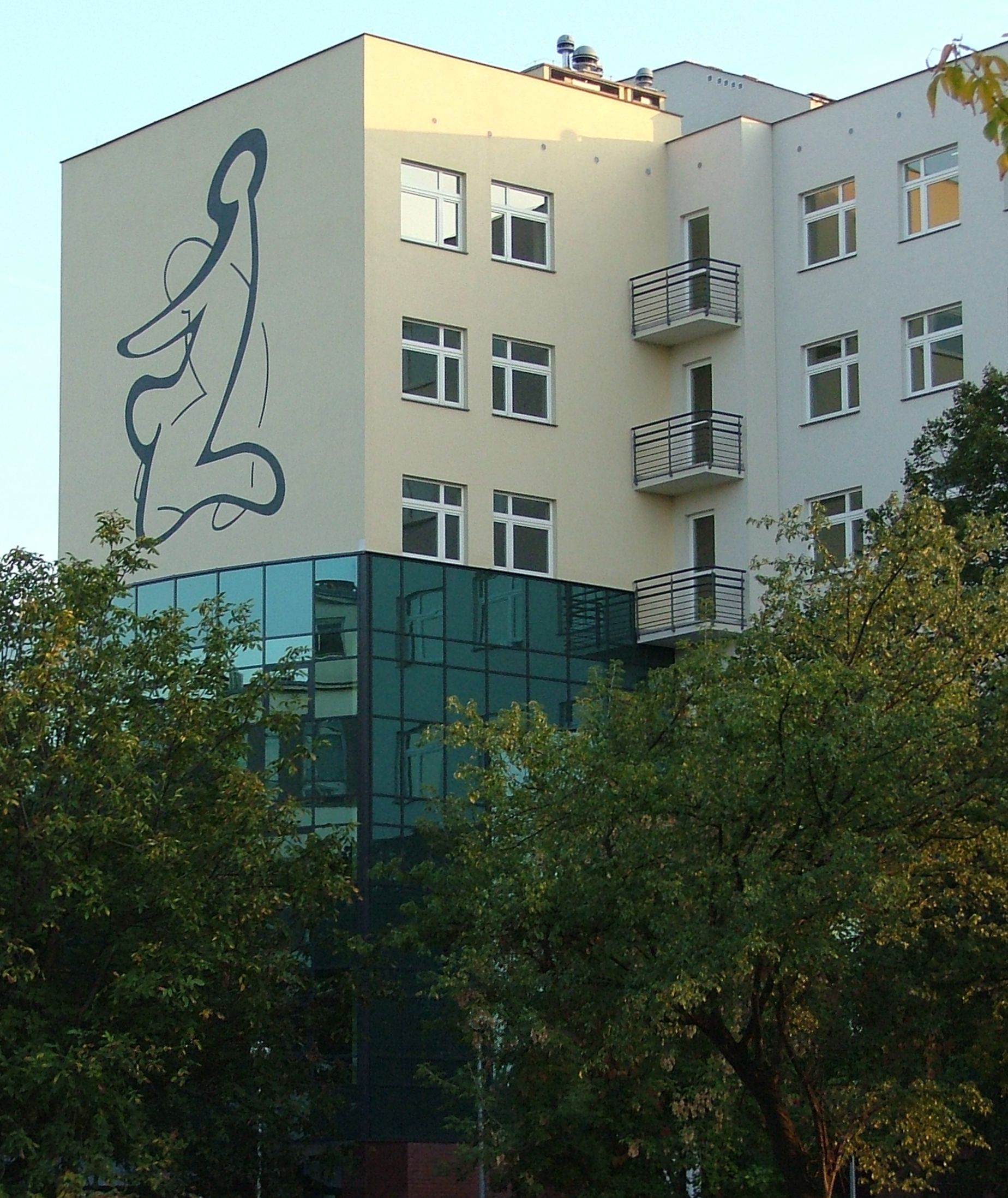 Poland, Warsaw, Academy of Special Education